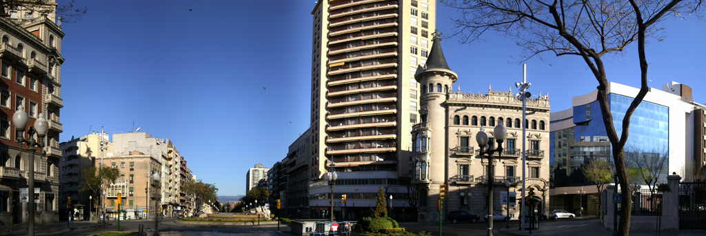 Rambla Nova, main street of Tarragona city.